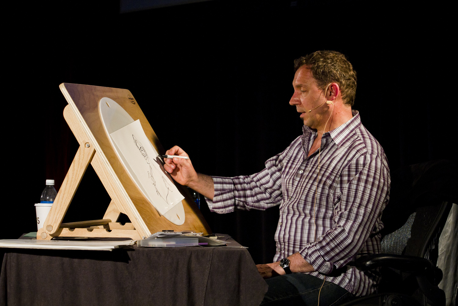 Studio Technique Masterclass with Andreas Deja